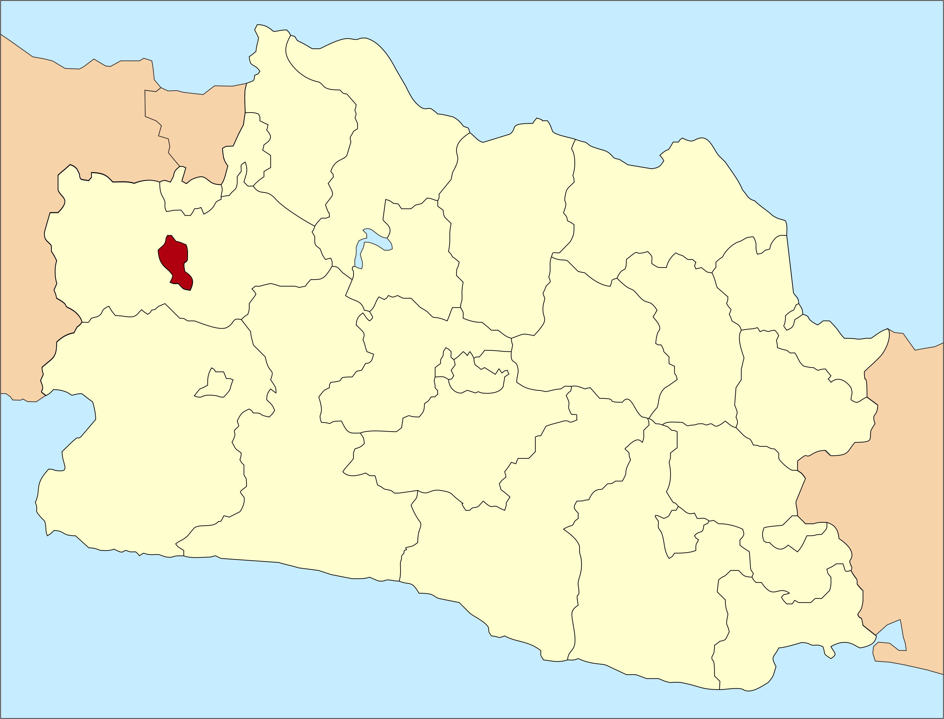 Locator map of Bogor Ciry, West Java